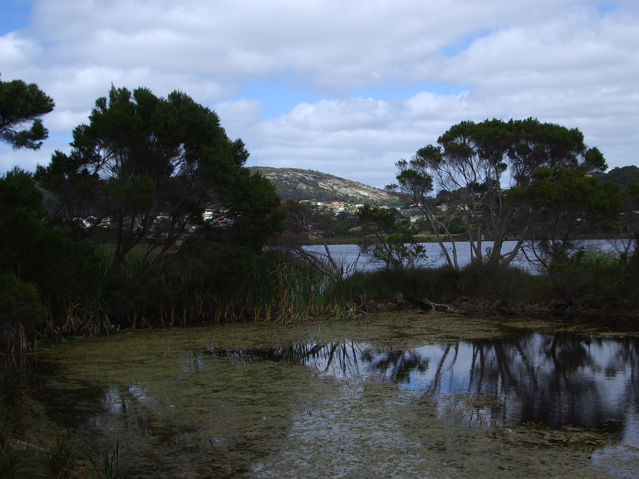 Photo taken June 12 2005 by Darren Hughes (myself) I release this photo into the public domain for anyone to use. The photo has the overflow pond from lake seppings in the foreground (used to water the golf course)and mount clarence in the background.